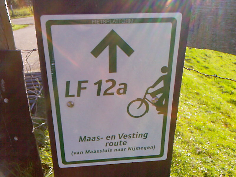 Route sign of the cycling route "Maas- en Vestingroute" from Maassluis to Nijmegen, Netherlands.